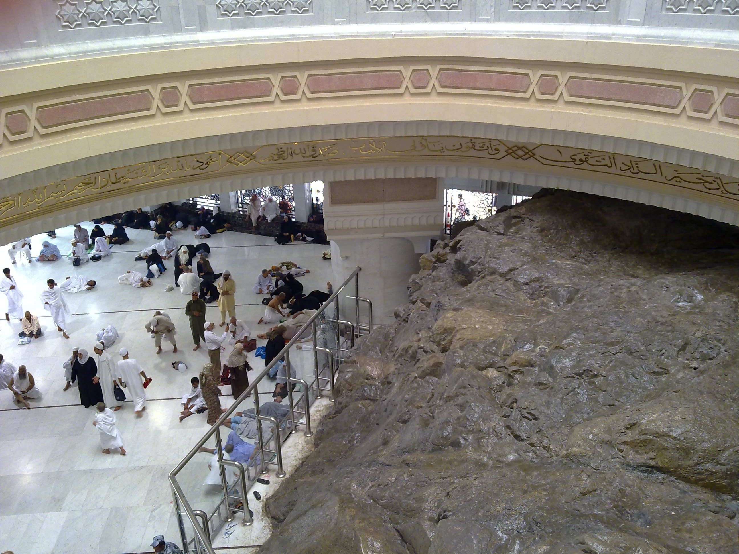 Mount Safa in Masjed al Haram